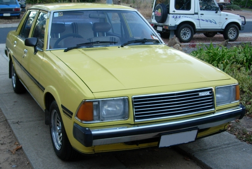 1980 model Mazda 626 sedan, Australia.